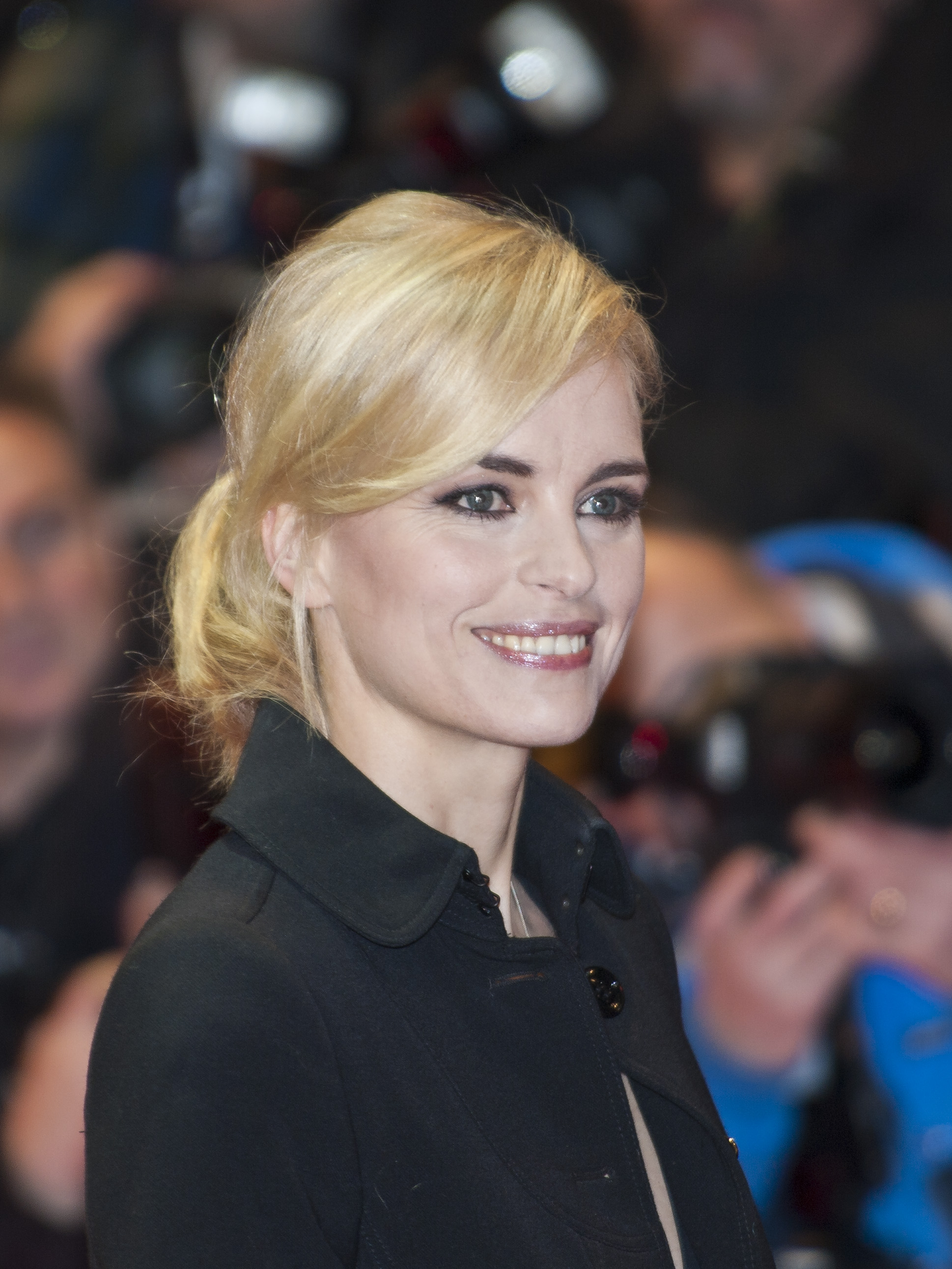 German actress Nina Hoss, member of the international jury of the Berlin Film Festival 2011, arriving at the premiere of True Grit